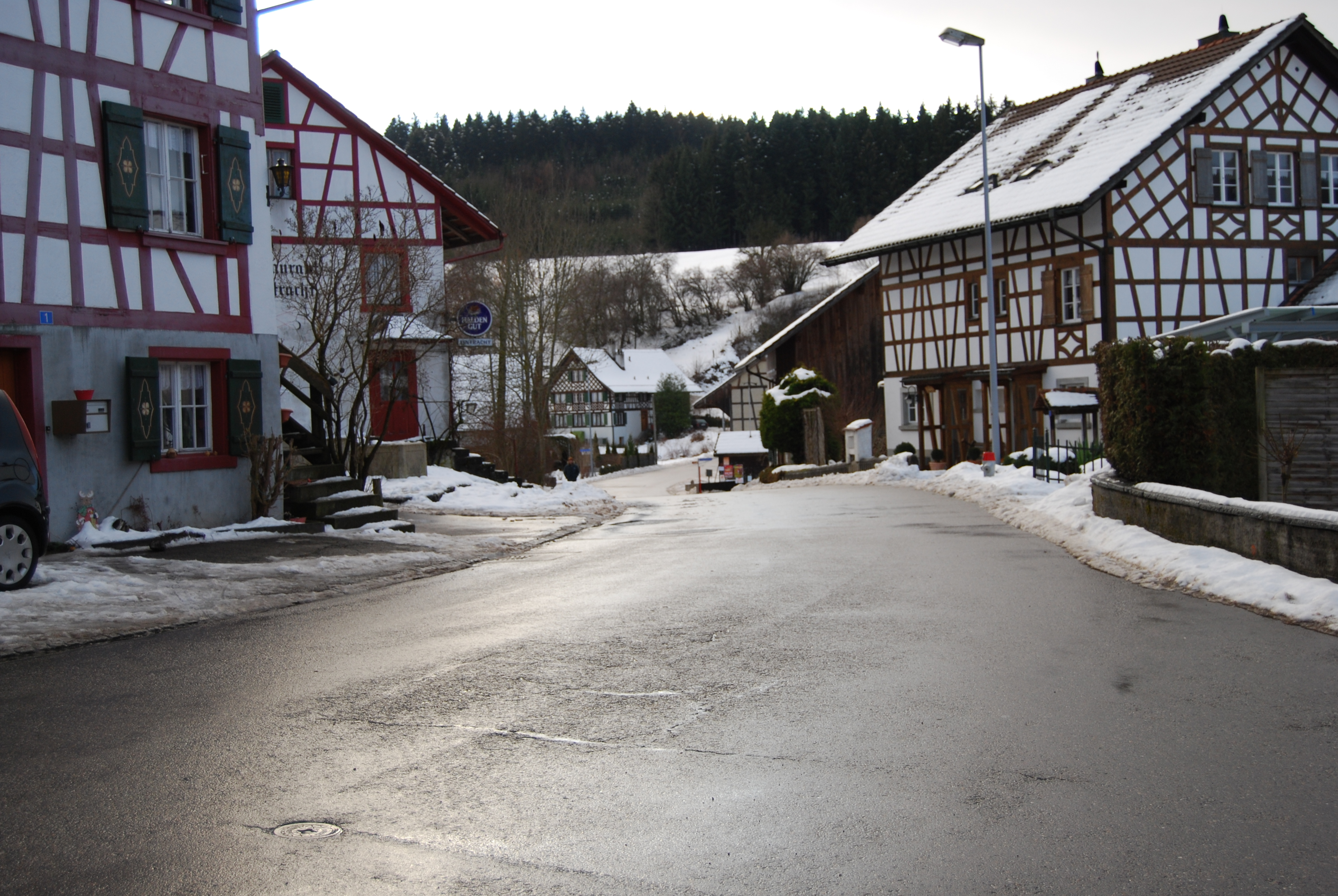 Oberschlatt, municipality of, canton of Zürich, SwitzerlandEsperanto: Oberschlatt, komunumo Schlatt, Kantono Zuriko, Svislando